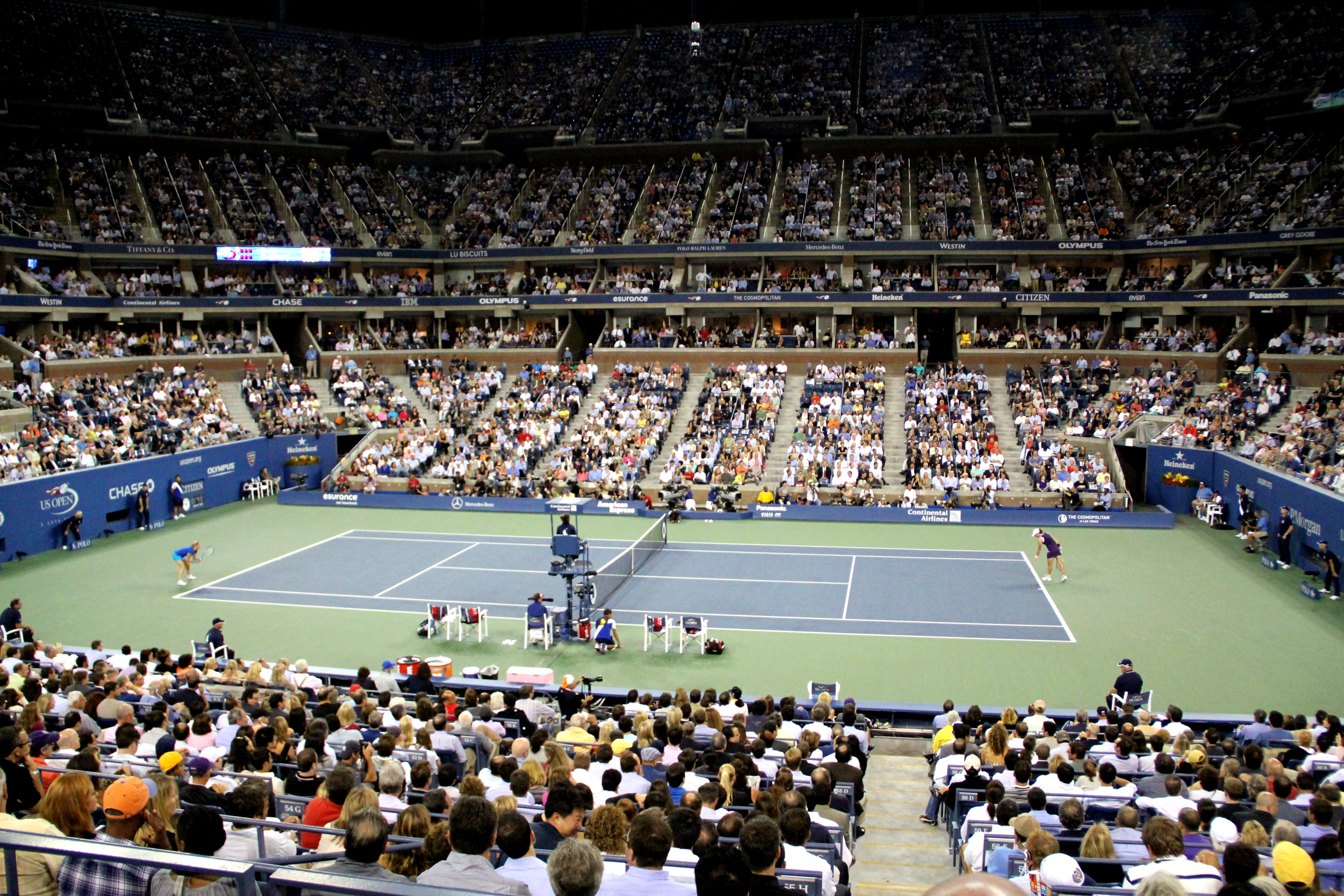 Clijsters vs. Stosur match on Tuesday night, 9/7 at the US Open. The Cosmopolitan is in New York for the 2010 US Open, inviting attendees and guests to experience signature views from our Overlook and in our custom designed suite with prime-stadium seating. For more information on The Cosmopolitan visit